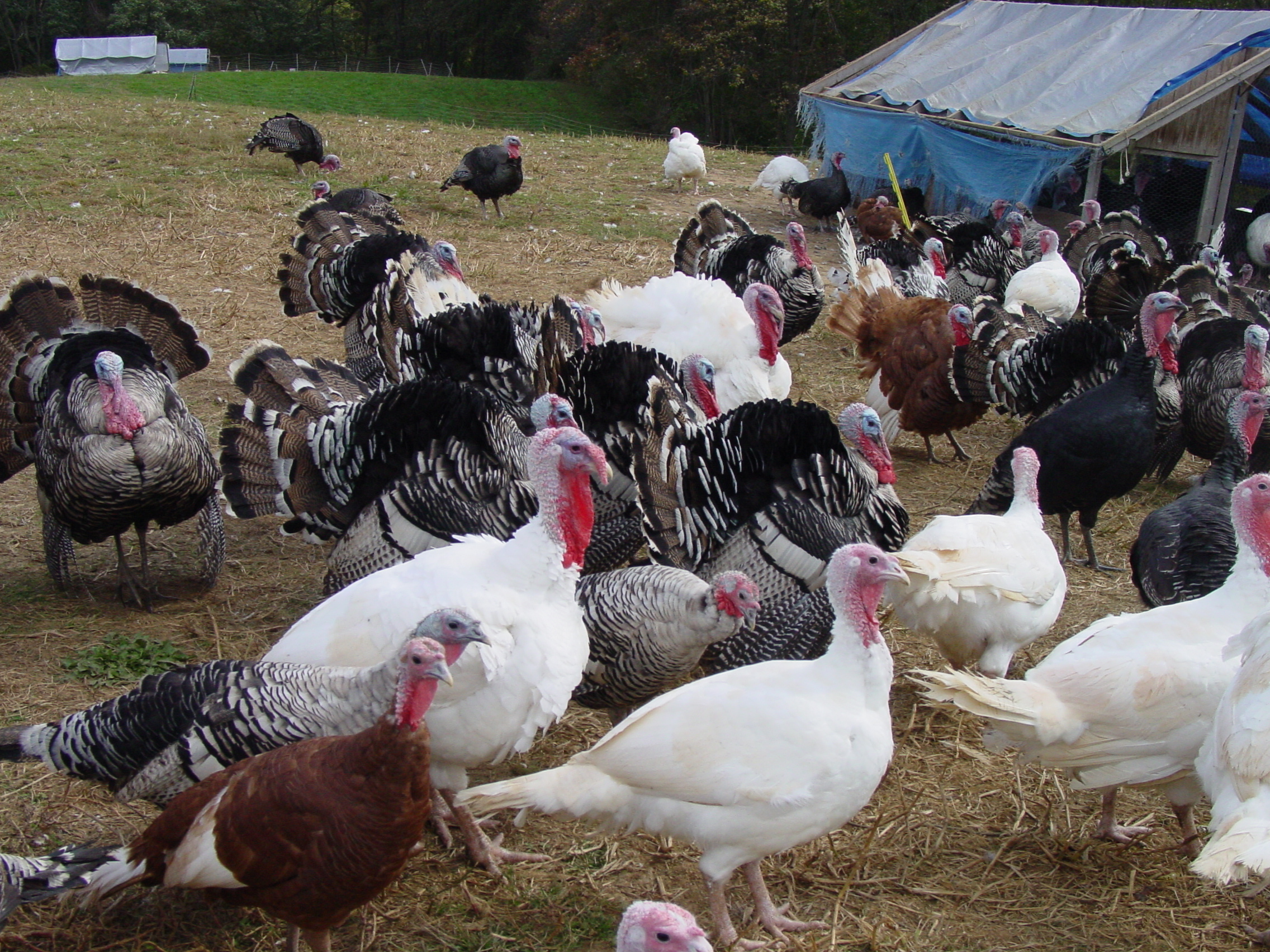 Heritage Turkeys at Springfield Farms in Sparks, Maryland.